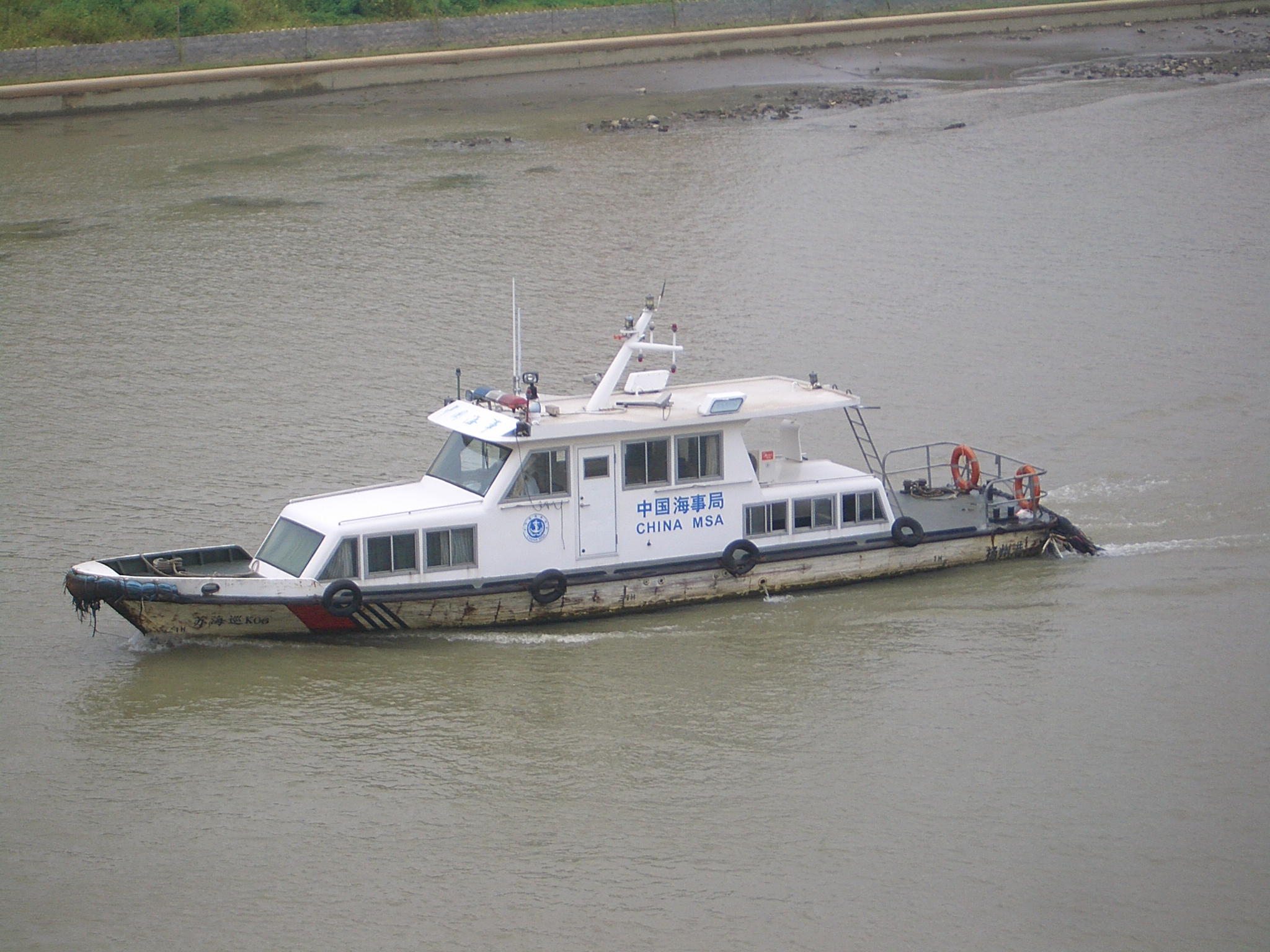 A self-propelled barge and a government cutter (China Maritime Safety Administration) on the modern route of the Grand Canal of China on the eastern outskirts of Yangzhou. (Looking north from a bridge).